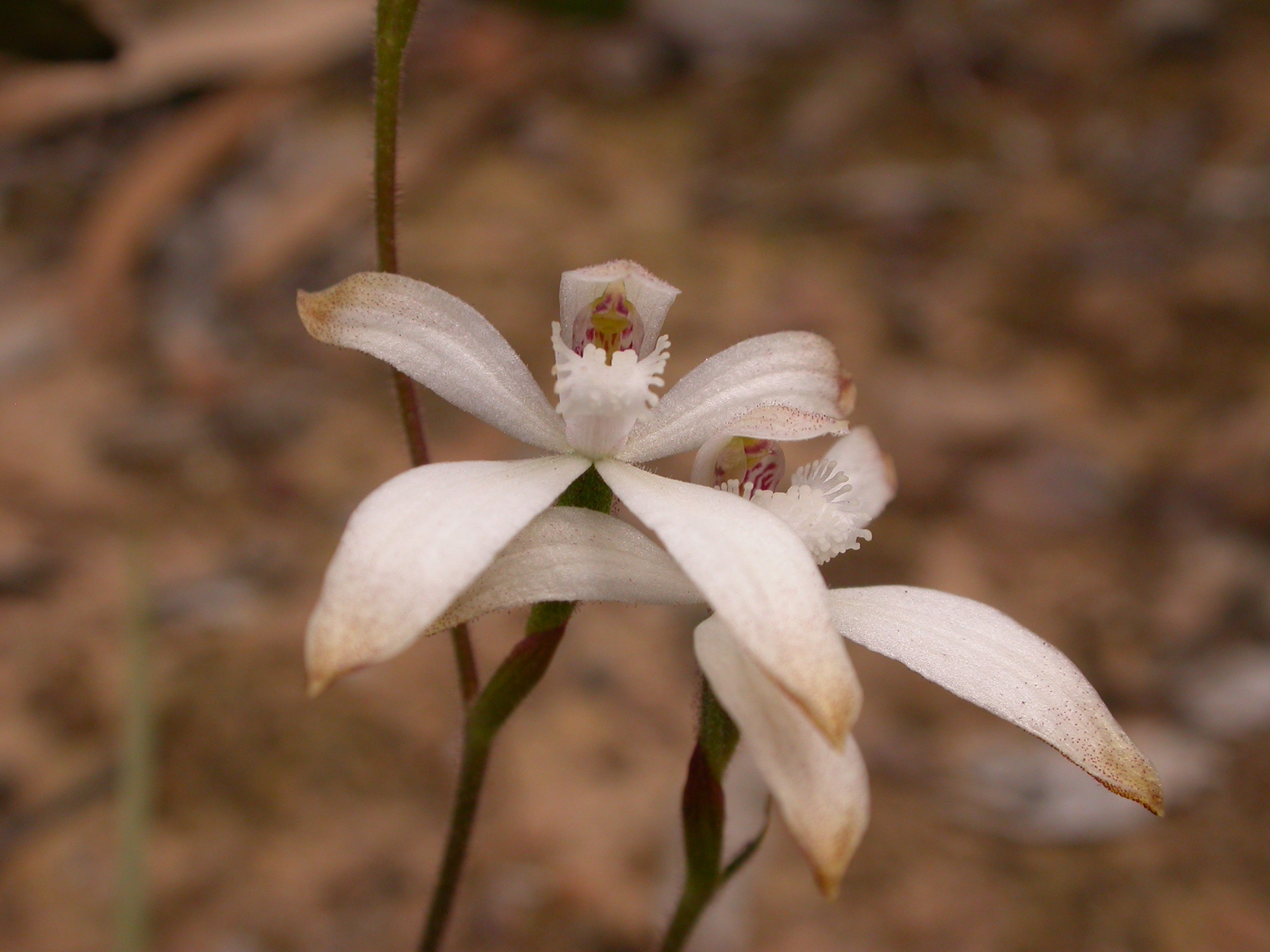 Caladenia ustulata (Brown Caps), Black Mountain, ACT, 11 October 2010